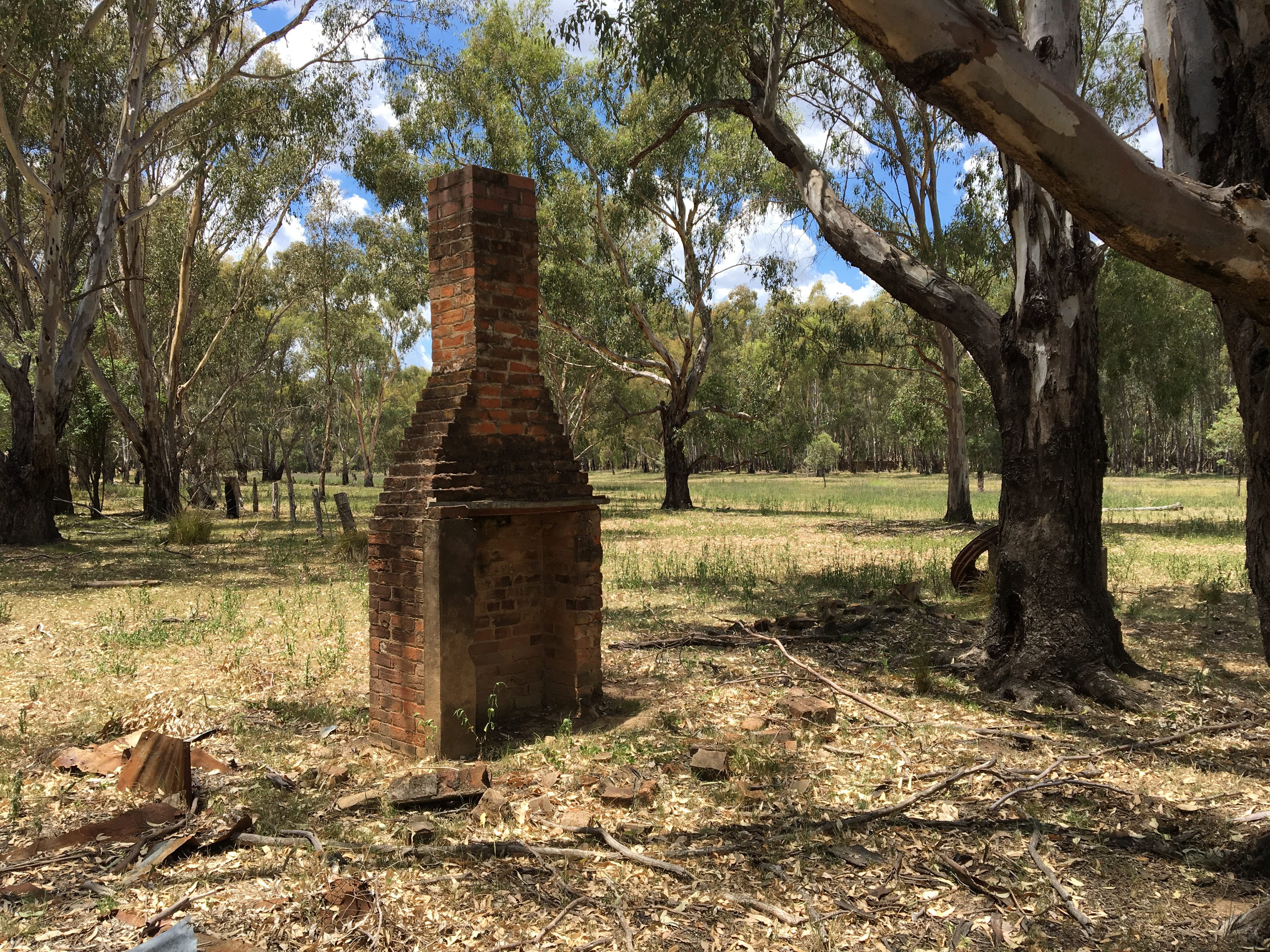 A chimneystack on the site of the former Yarrabin (Merrendee) Public School. More likely than not this was the teacher's residence. Schoolhouse would have been nearby and adjacent to "The Knoll".